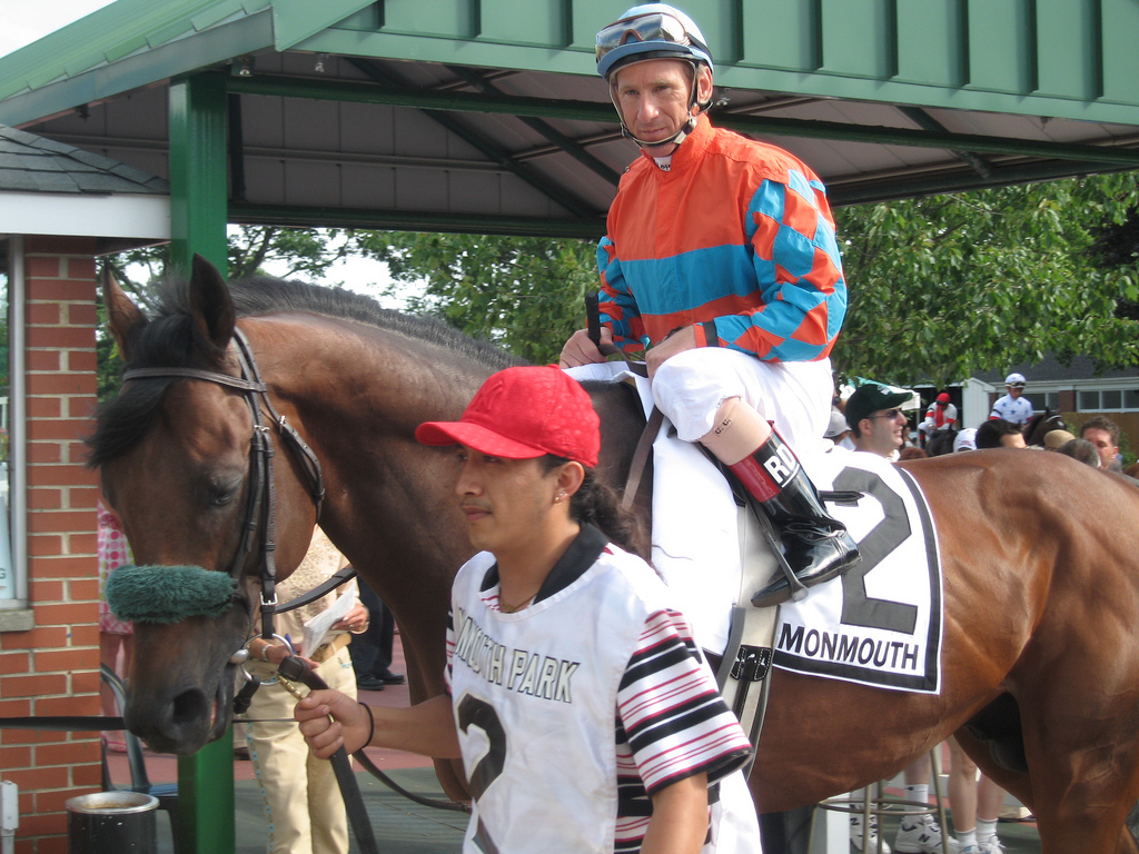 Jockey Chuck C. Lopez aboard Strike a Deal before the 2009 United Nations.